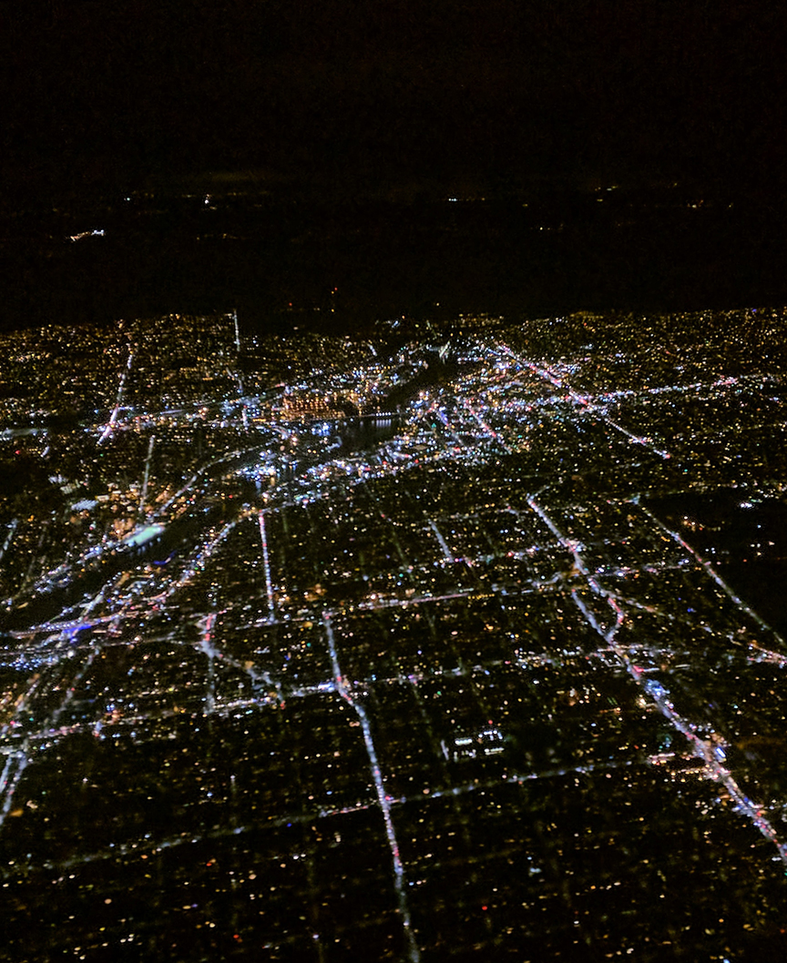 Night aerial view of the Ballard neighborhood of Seattle, looking west with Salmon Bay in the center, Ballard on the right.